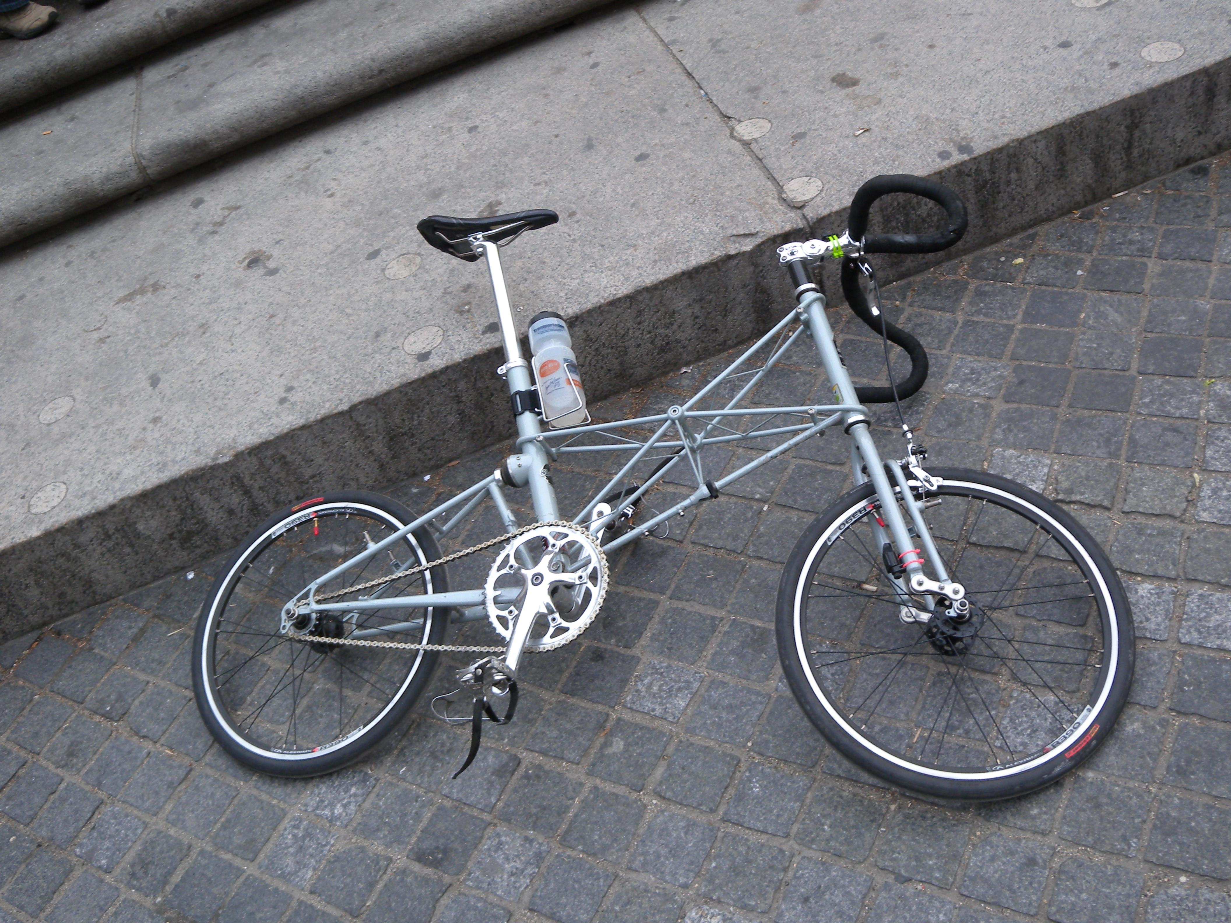 Looking southeast at Moulton with space frame, leaning against the Maine Monument in Columbus Circle, on a cloud late afternoon.